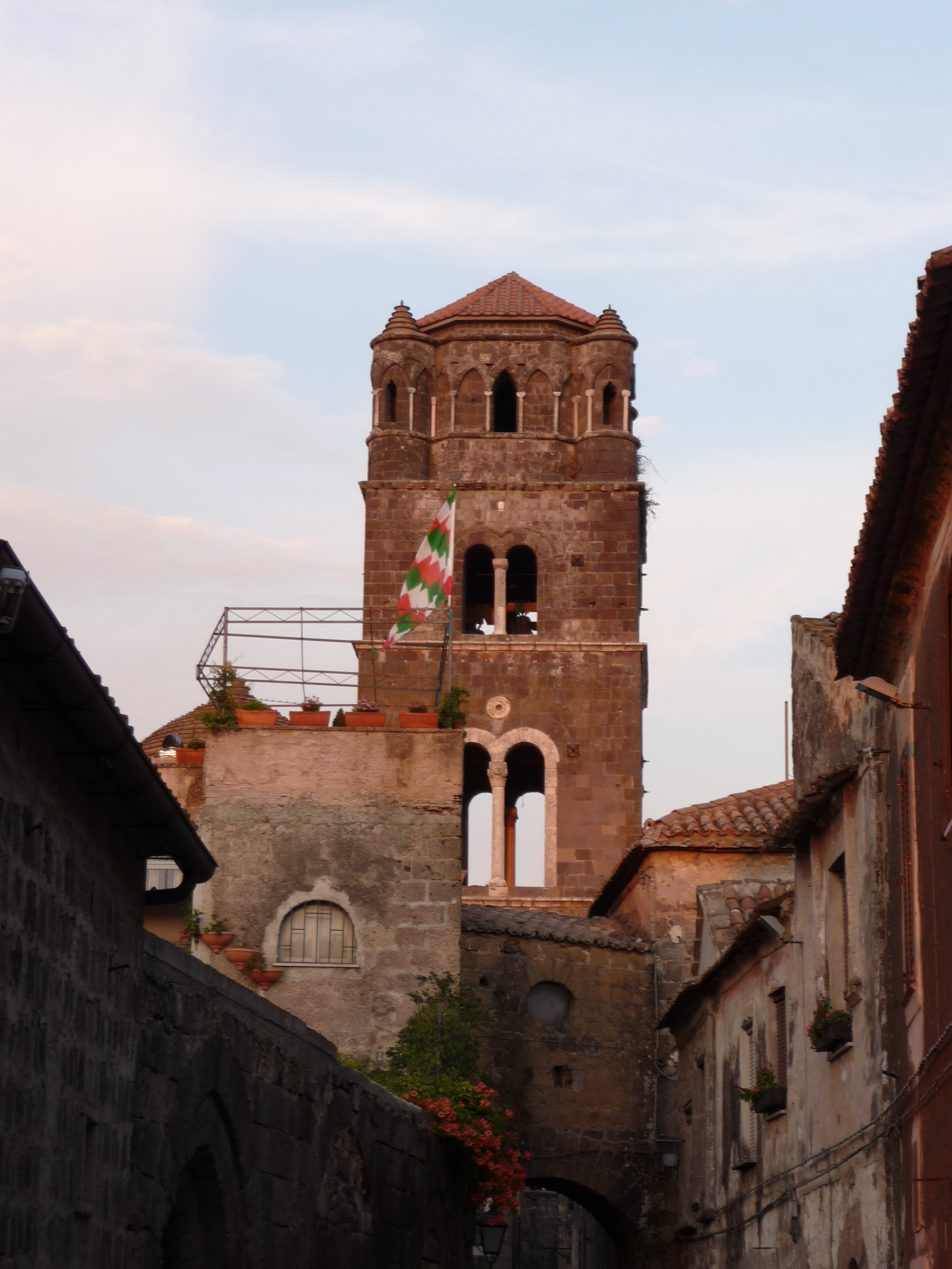 Cathedral of San Michele Arcangelo in Casertavecchia, a frazione of Caserta.